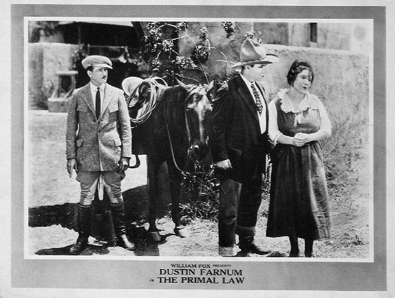 Lobby card for the American silent western film The Primal Law (1921) with Philo McCullough, Dustin Farnum, and Mary Thurman.